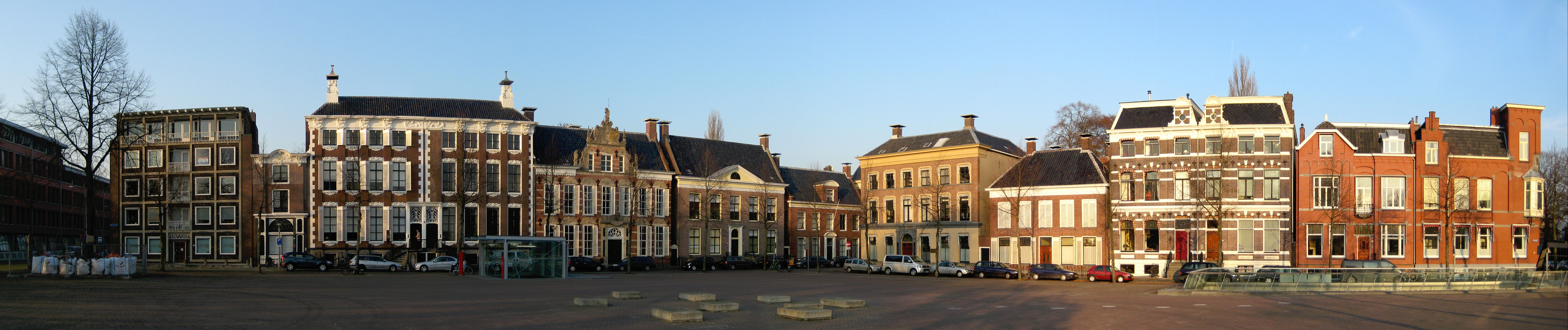 The Ossenmarkt in the Dutch city of Groningen.